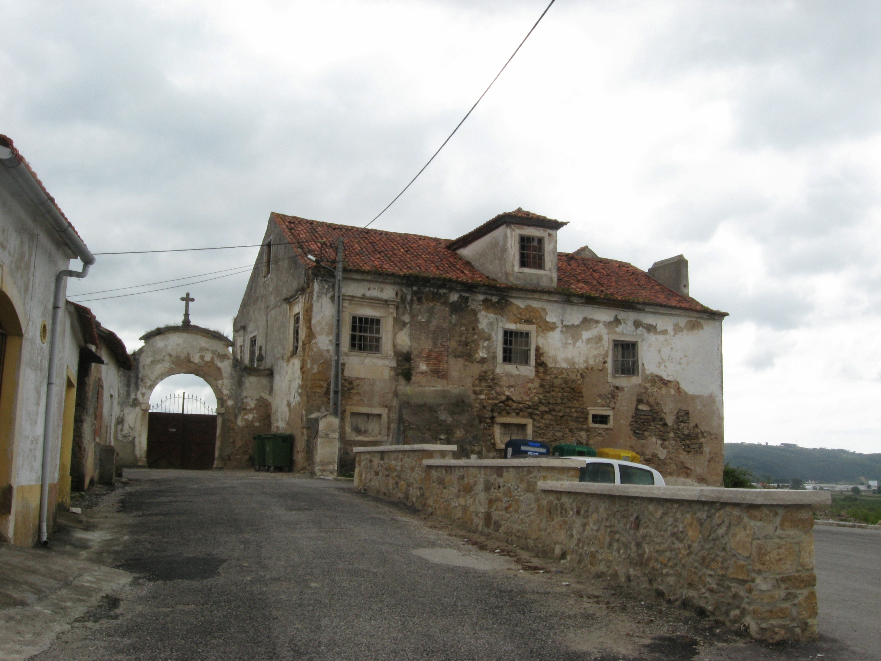 Alcobaça. Portugal. Mosteiro de Alcobaça, Coutos de . former county of the Abbey, Maiorga was one of the 13 cities of the Coutos, Quinta do Outeiro is one of the old 'granjas' (farms) of the monks